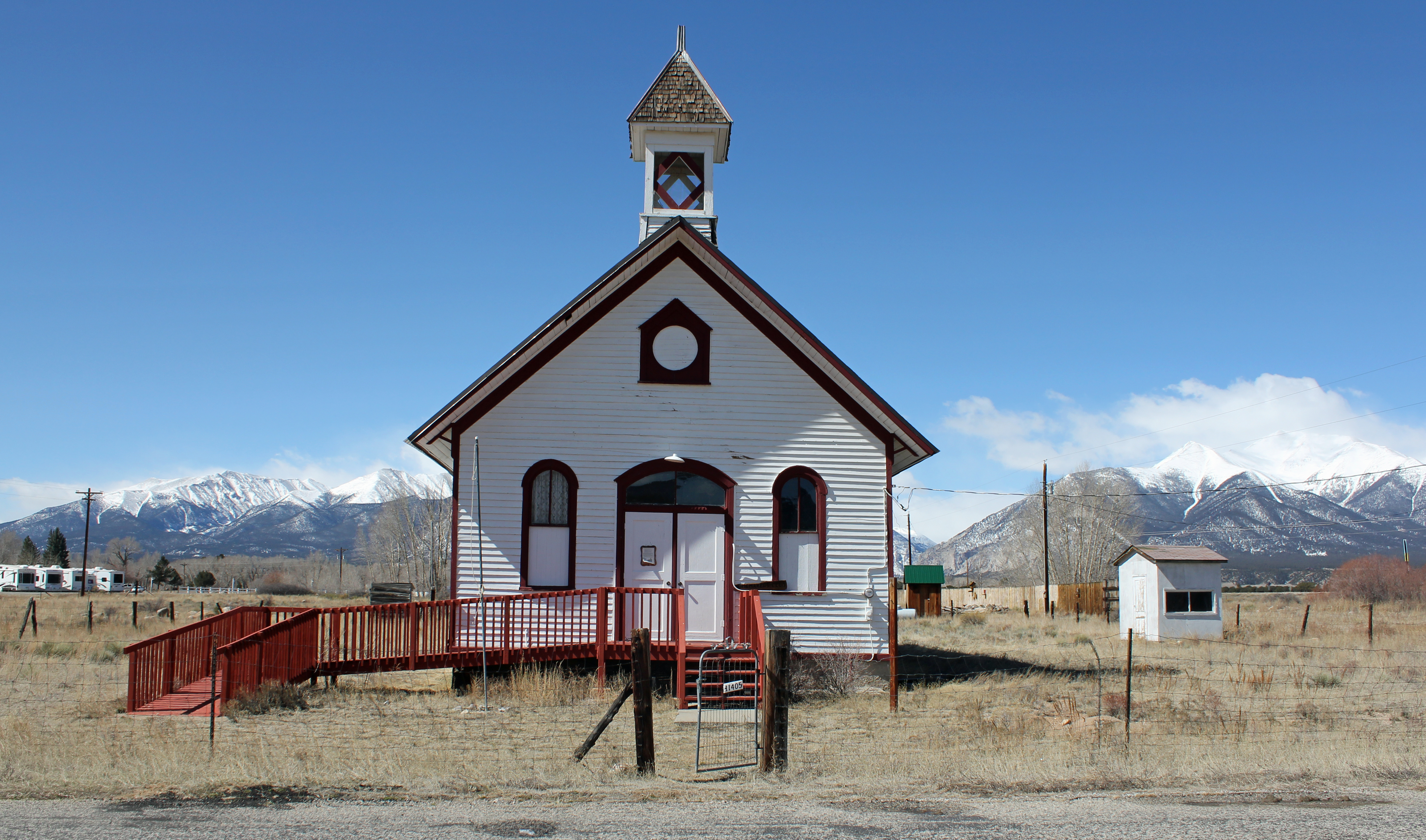 An old school in Nathrop, Colorado. The school is located at 11405 County Road 197-B in Nathrop, Chaffee County, Colorado.